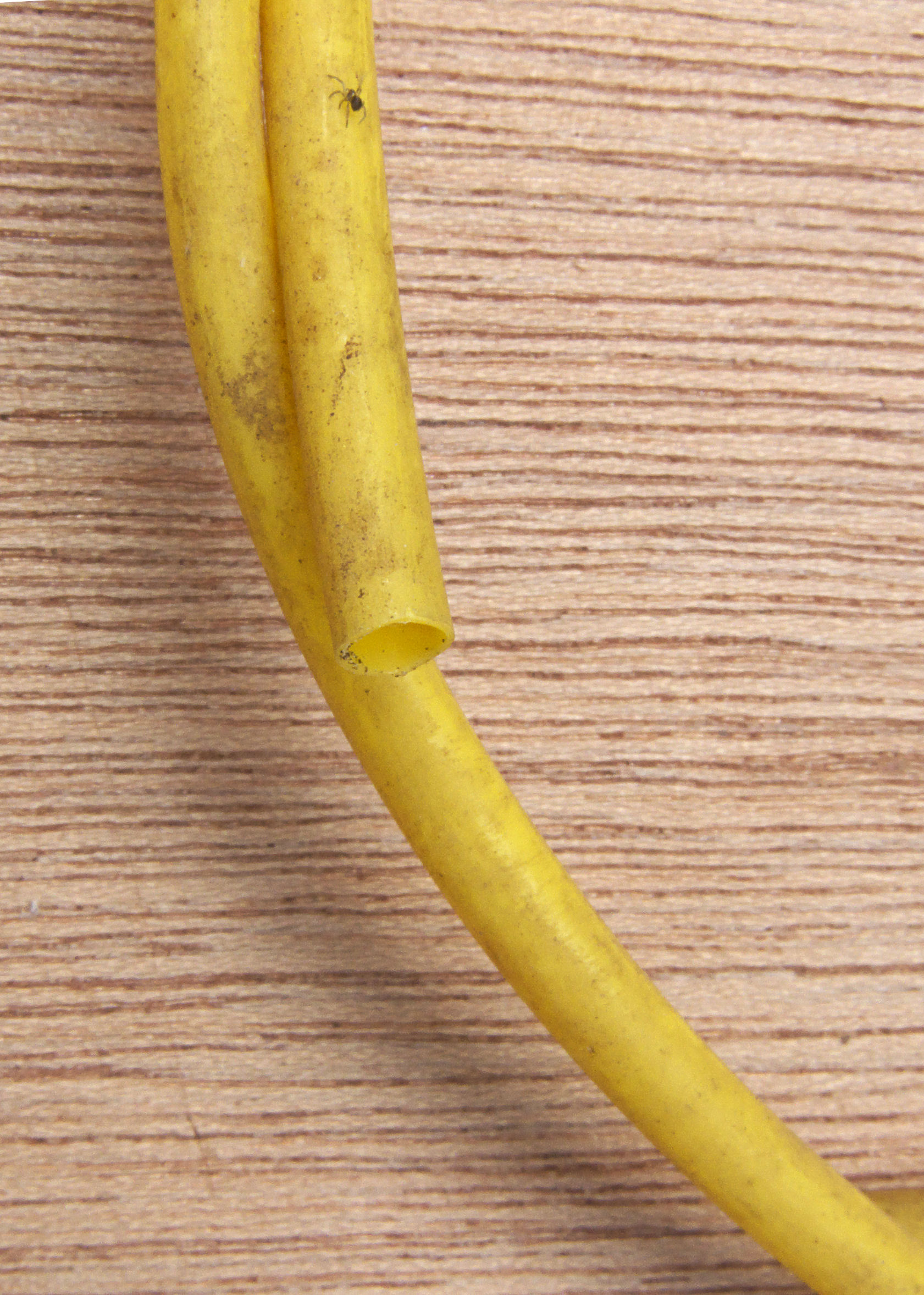 String tube 6 mm diameter